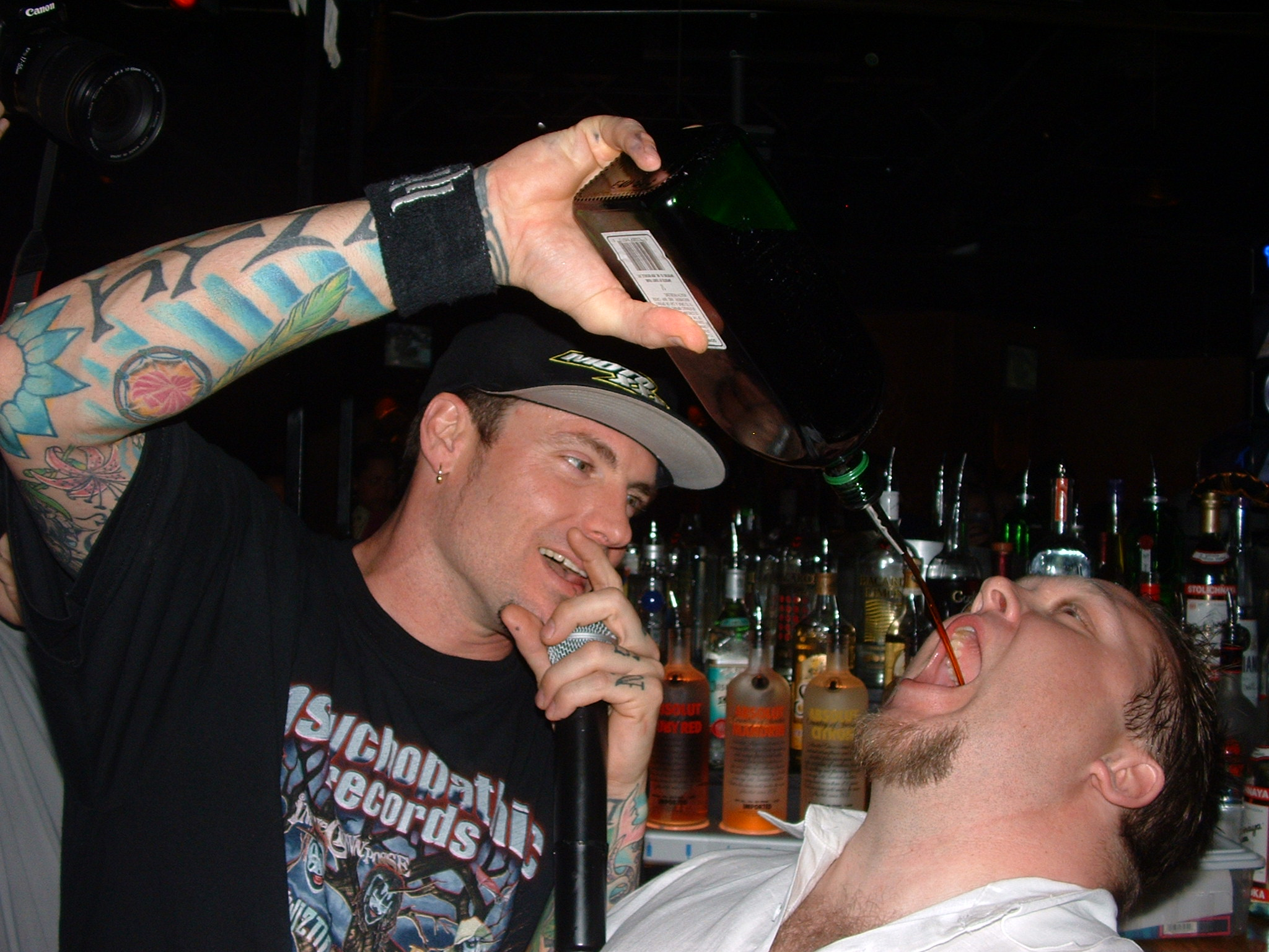 Vanilla Ice appearing at the Tex-Mex Grill in Baltimore, Maryland. The other person is John Kerr.